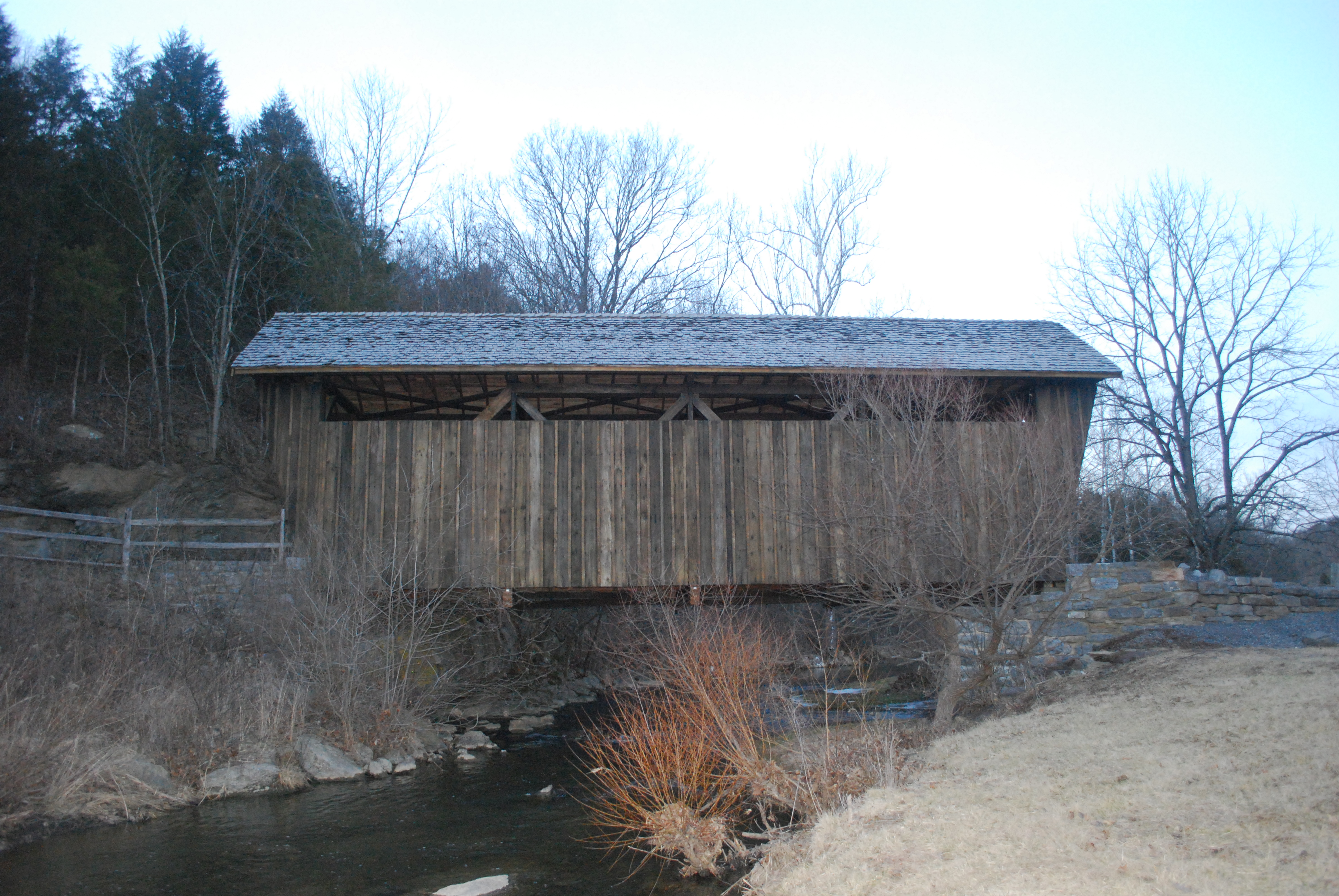 Indian Creek Covered Bridge in Monroe County, West Virginia.